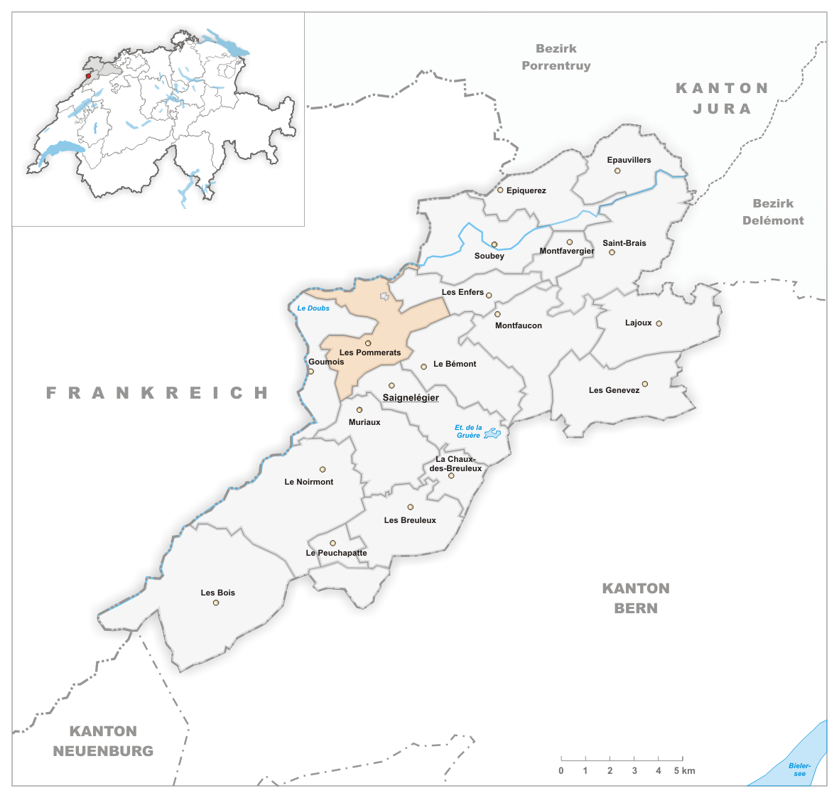 Municipality Les Pommerats